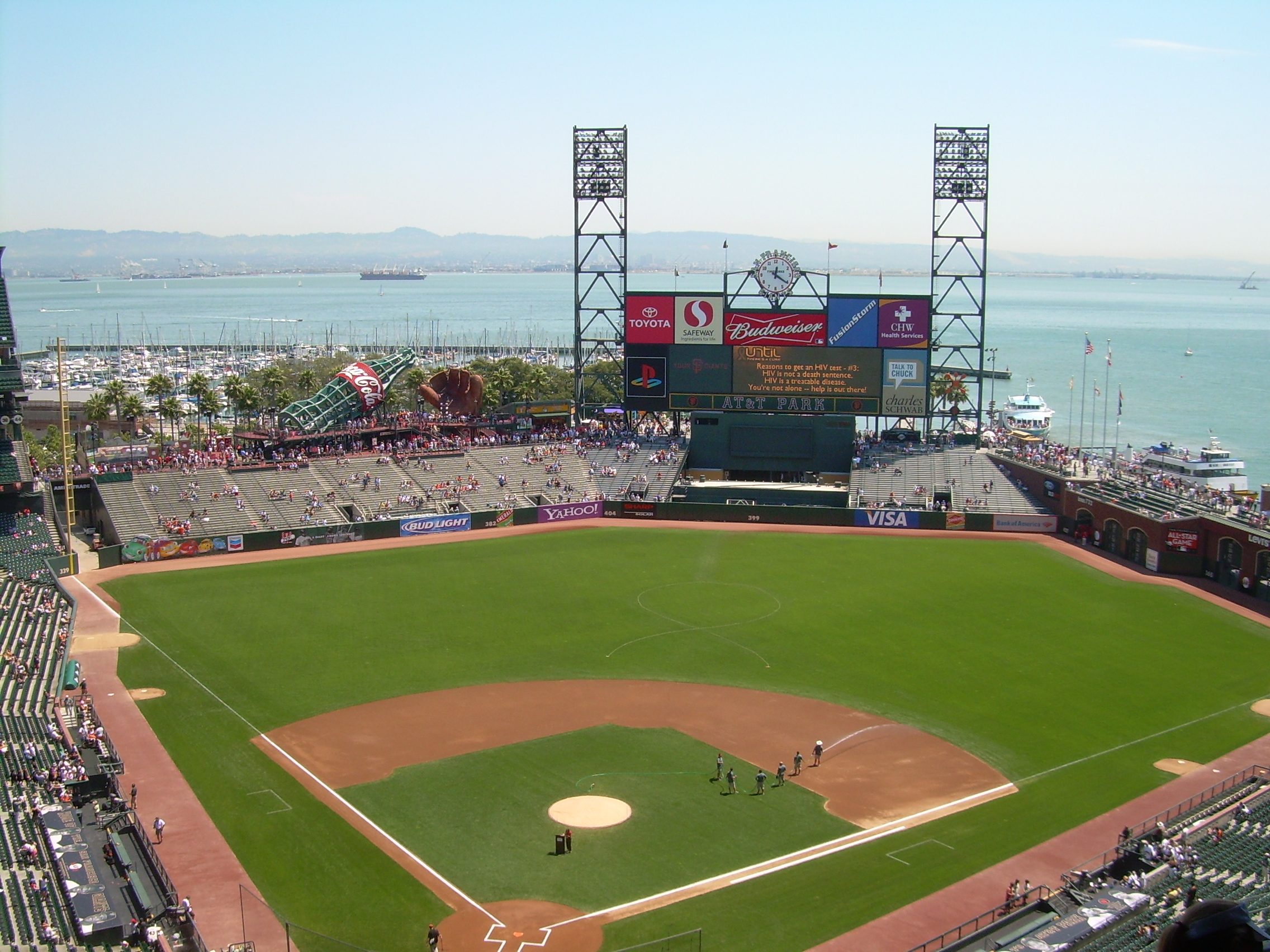 23:22, 24 July 2006 . . Coasttocoast . . 2272×1704 (1,943,018 bytes) (self taken)